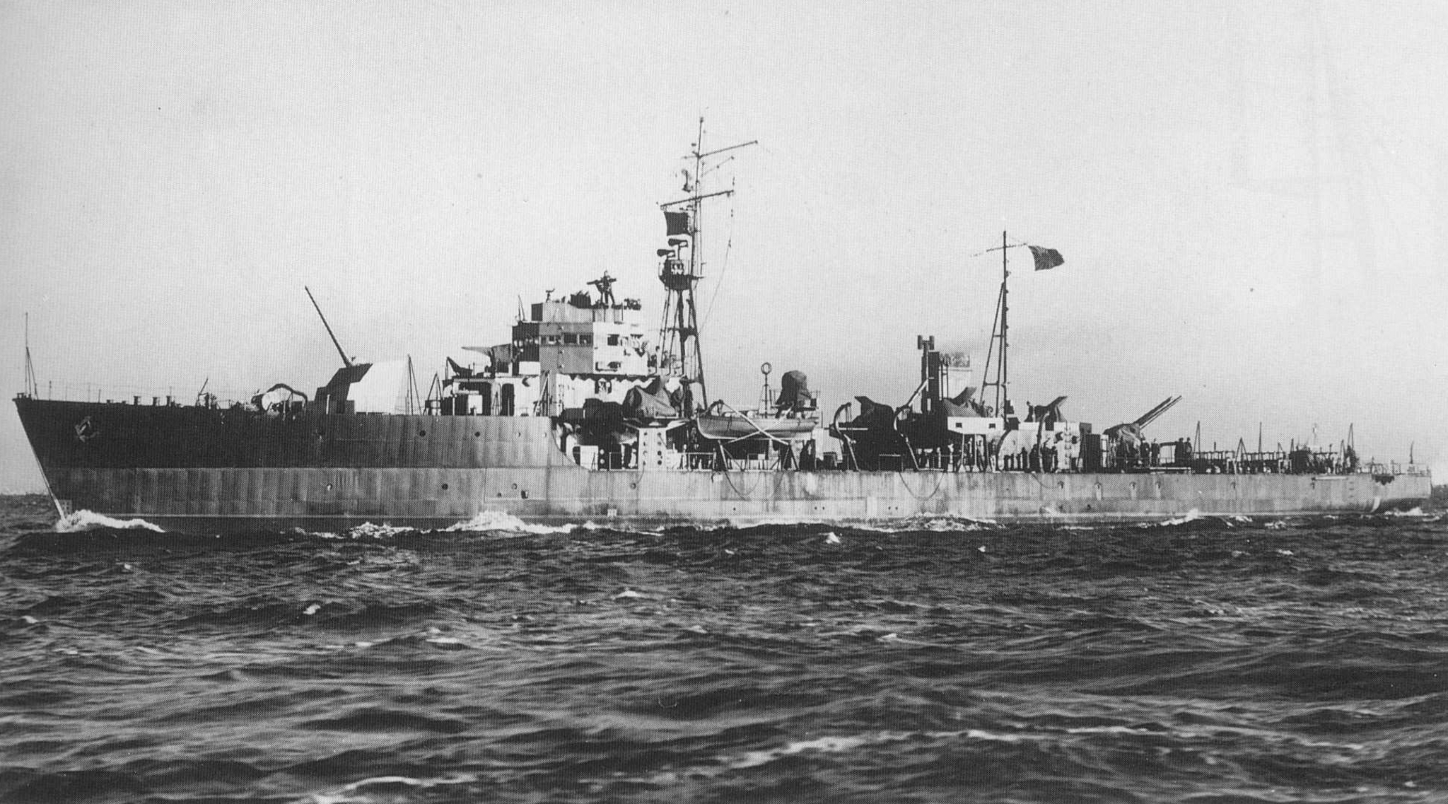 HIJMS Shisaka